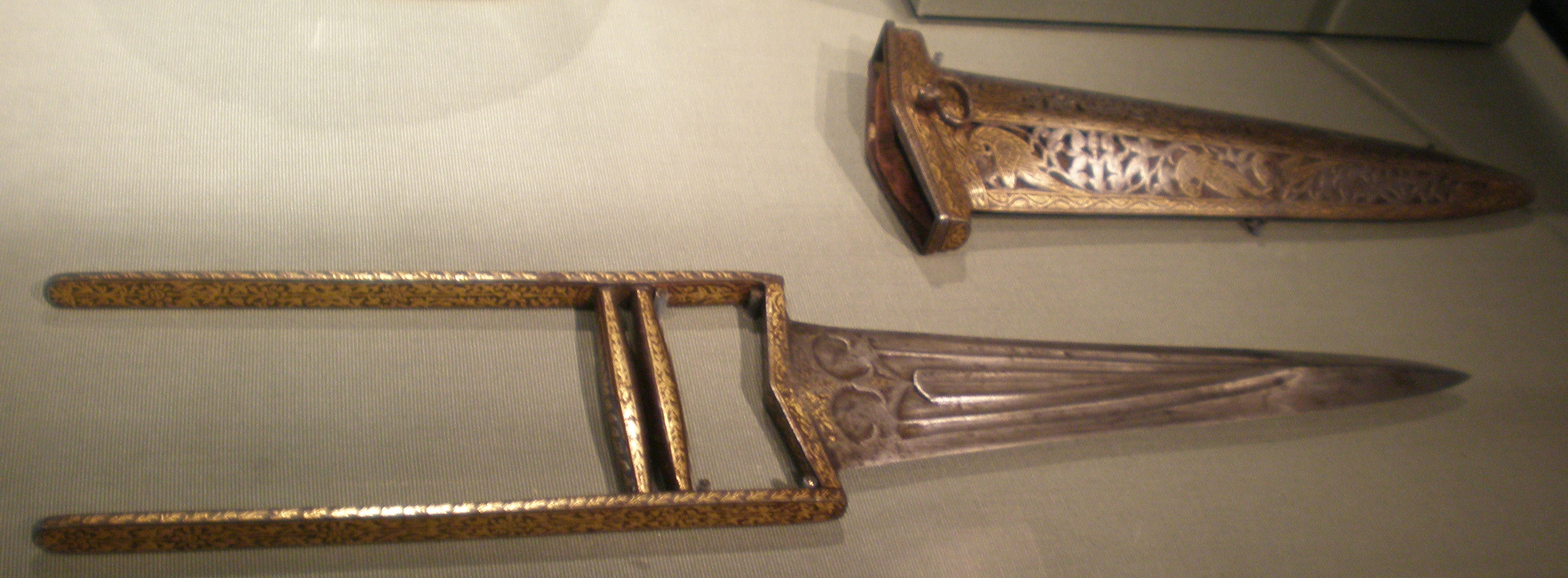 A katar and sheath, 1700-1800, from southern India. On display at the Asian Art Museum in San Francisco, California. B84W3